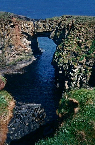 Vat of Kirbister (Stronsay) / Orkney (gloup) original copyright 1999 Wolfgang Schlick (aka Islandhopper) shot taken in 1999 published before from the authors archive Islandhopper 14:50, 30 July 2006 (UTC)